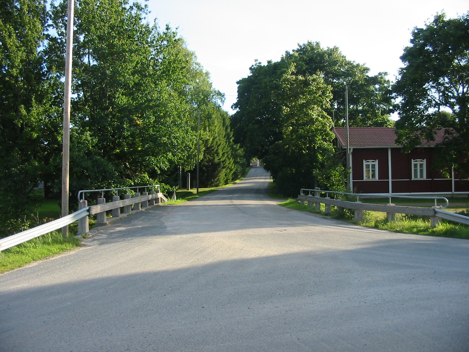 A view of Unaja village in Rauma, Finland. The village is one of the nationally valuable built environments of Finland.